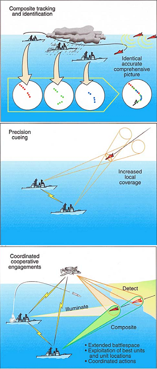 Cooperative Engagement Capability modes of operation